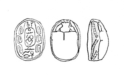 Drawing of an ancient Egyptian scarab seal bearing the cartouche of pharaoh Sekheperenre of the 14th Dynasty. Based on a drawing by Olga Tufnell (Study on Scarab Seals and their Contribution to the history in the early second Millennium B.C.; cat. no. 3465). Original scarab is housed at the Ashmolean Museum, Oxford (inv. no. AN1935.100a)